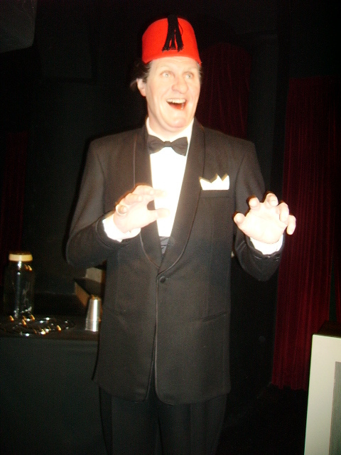 Tommy Cooper waxwork at Madame Tussauds in Blackpool, Lancashire